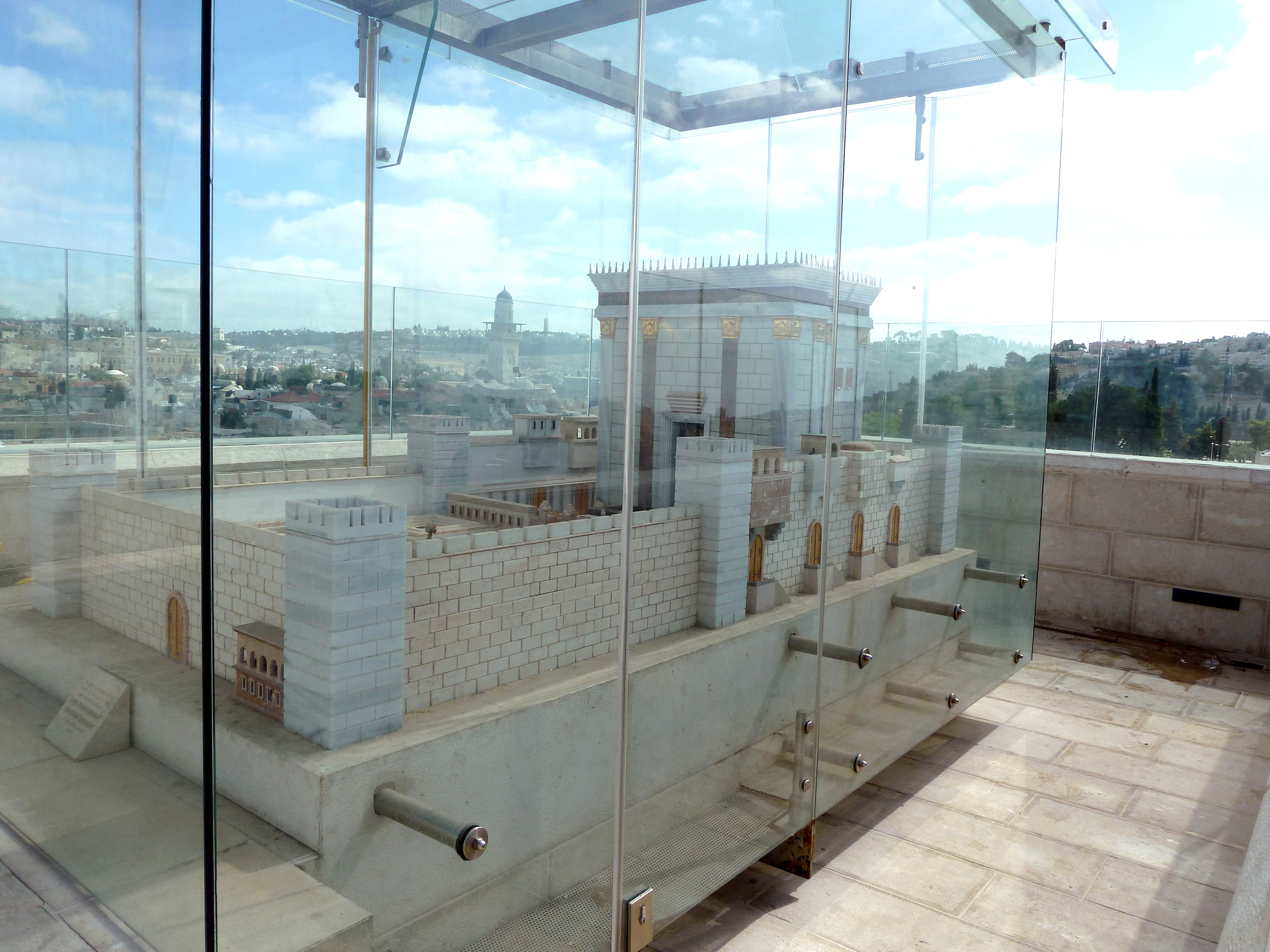 Old Jerusalem, Aish HaTorah Yeshiva, model of the Temple